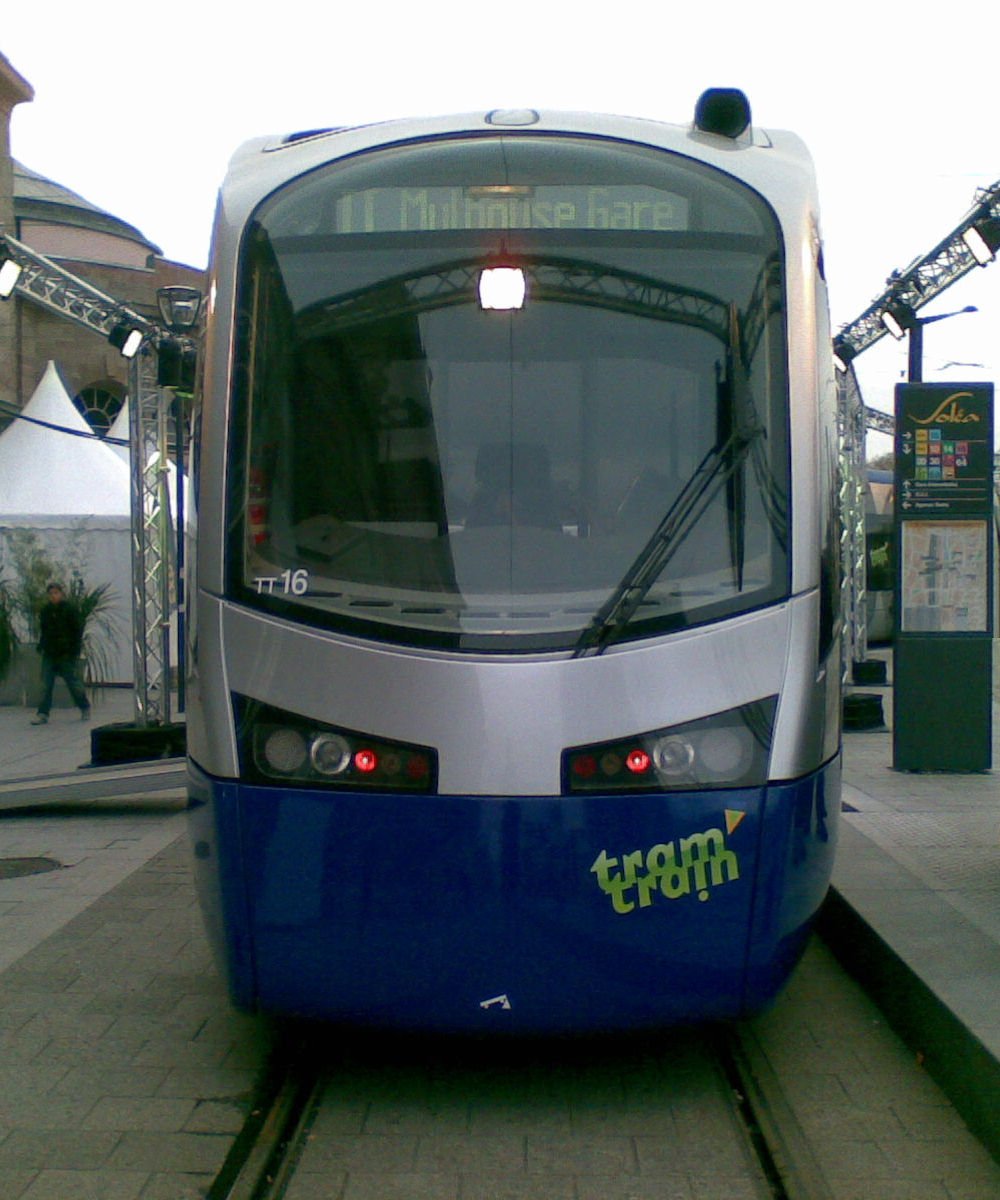 Front of the Avanto vehicle designed for The "Tram-Train Mulhouse-Vallée de la Thur" line. Exhibited in front of Mulhouse Railway Station in Premiere.